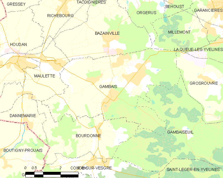 Map of French municipality Gambais